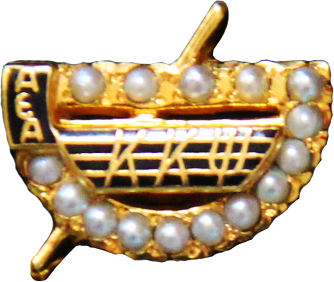 Crown Pearl Badge of Kappa Kappa Psi, National Honorary Band Fraternity.